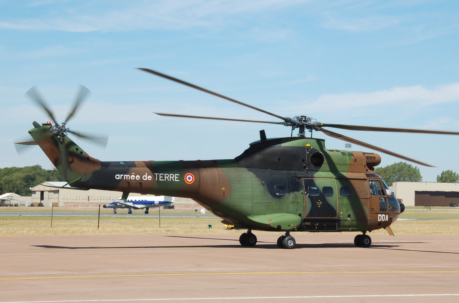 French Air Force (Armee de Terre) Aerospatiale SA 330B Puma (military codes DDA and 11) at the 2010 Royal International Air Tattoo, Fairford, Gloucestershire, England. [Sorry about the error in the filename, "AS" should be "SA".]